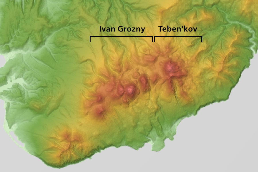 Ivan Grozny Volcano (left) and Teben'kov Volcano (right) in Iturup, Kuril Islands, Russia.